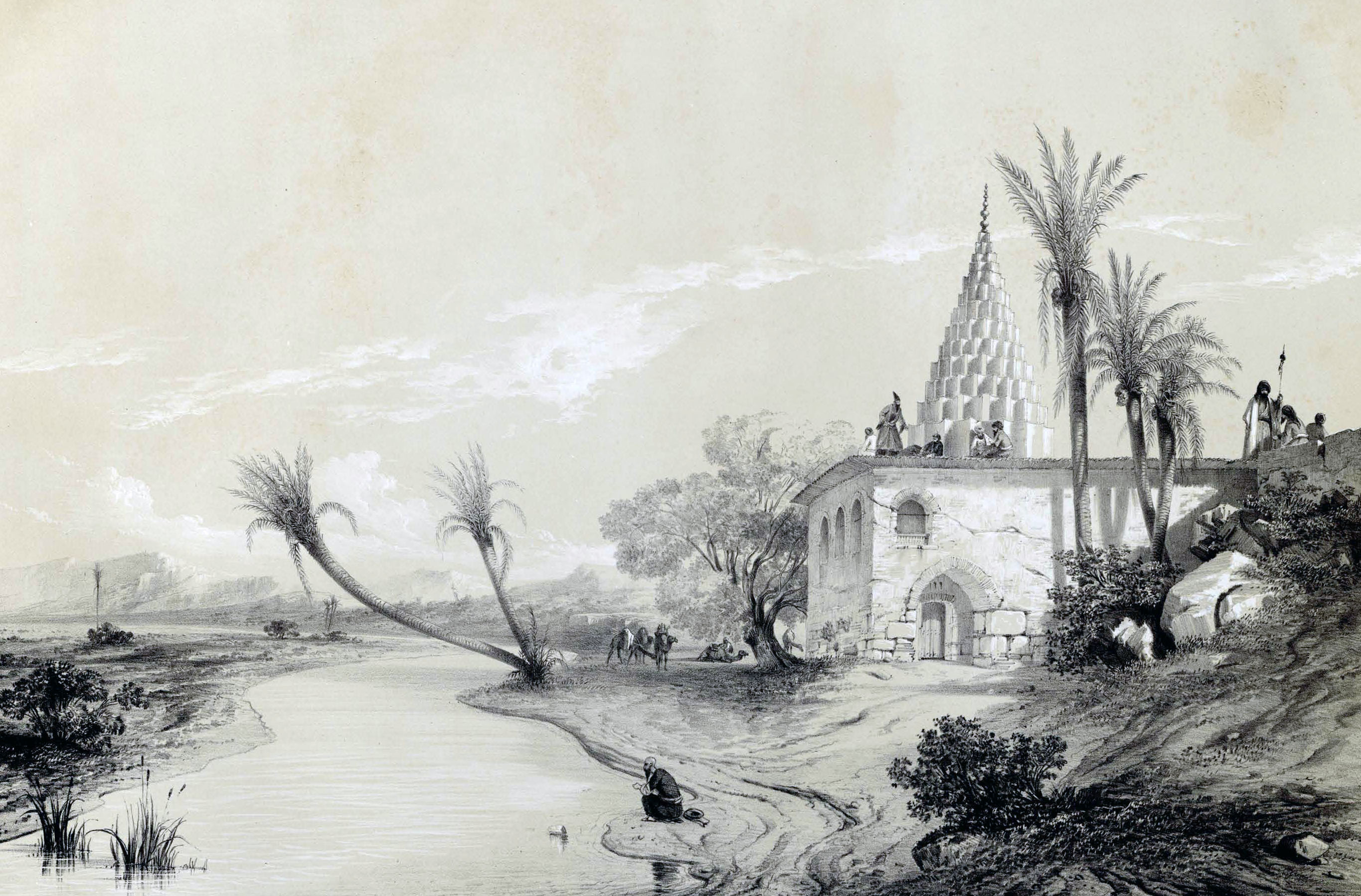 Tomb of Daniel , Shoushtar